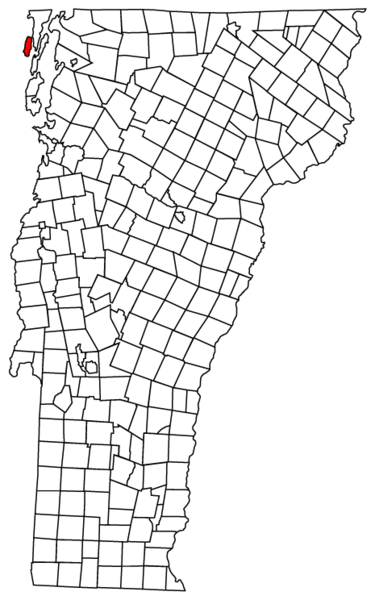 Isle La Motte